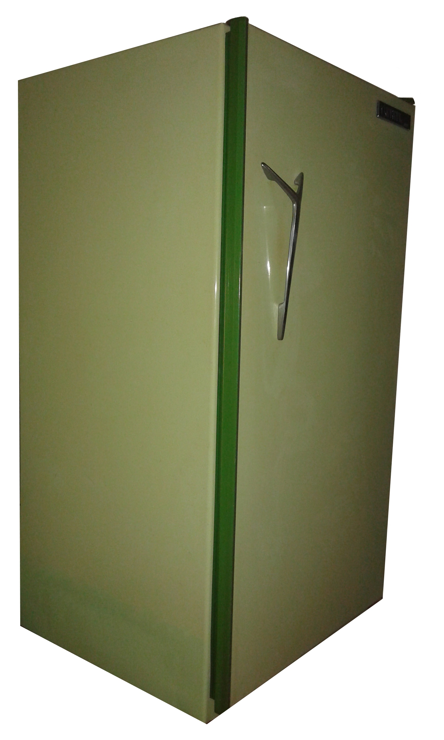 Photograph of an old Sisil Refrigerator (One of the Models Released Under the Original Sisil Brand 1963-1994)